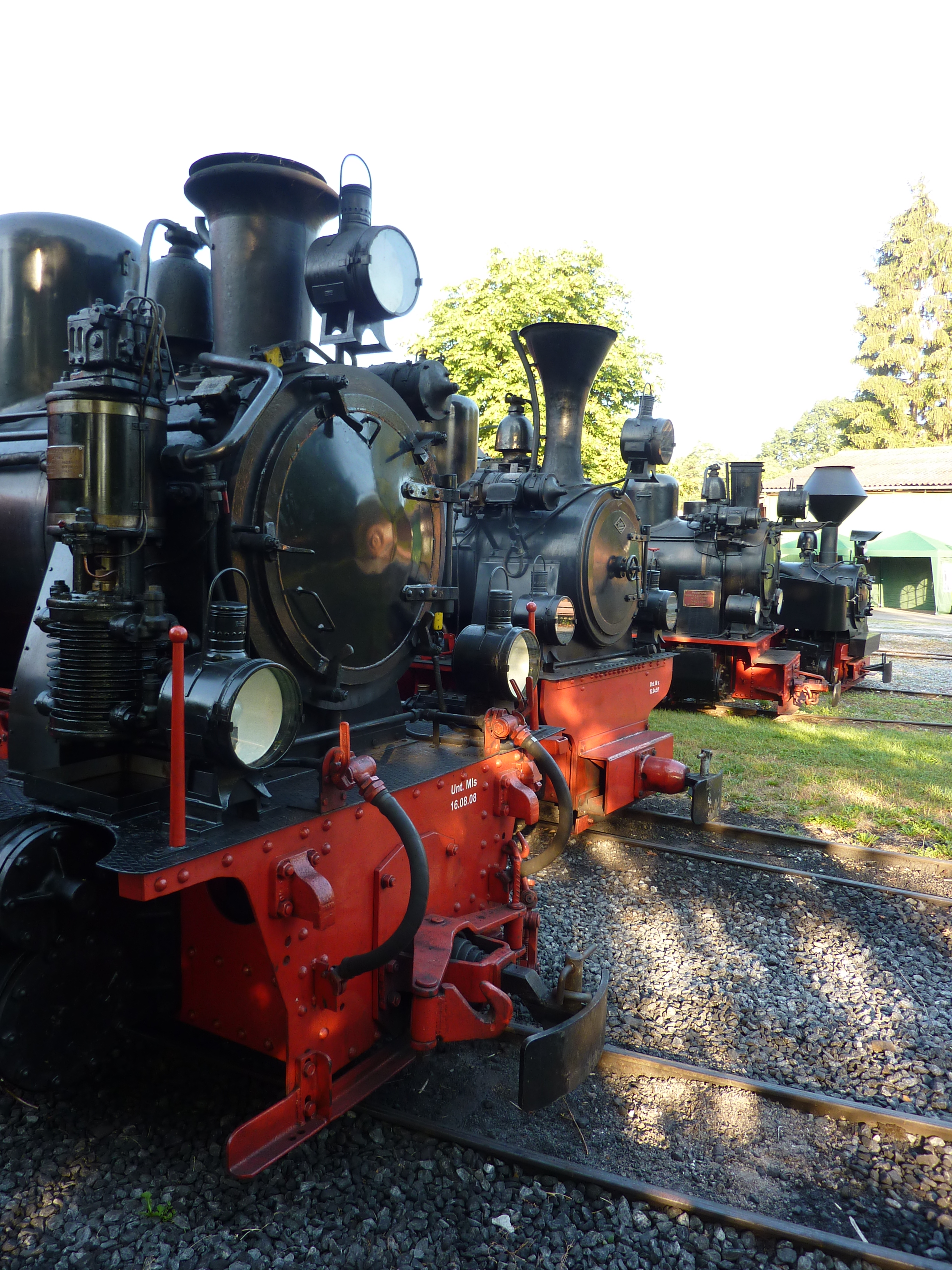 DKBM locos 1, 5, 7 and 3 (l to r) being prepared for the 45th anniversary gala 2018. Dampf-Kleinbahn Mühlenstroth